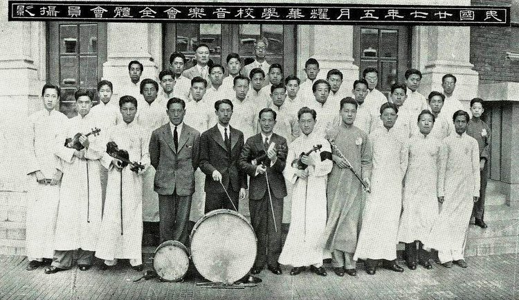 1938s Yaohua